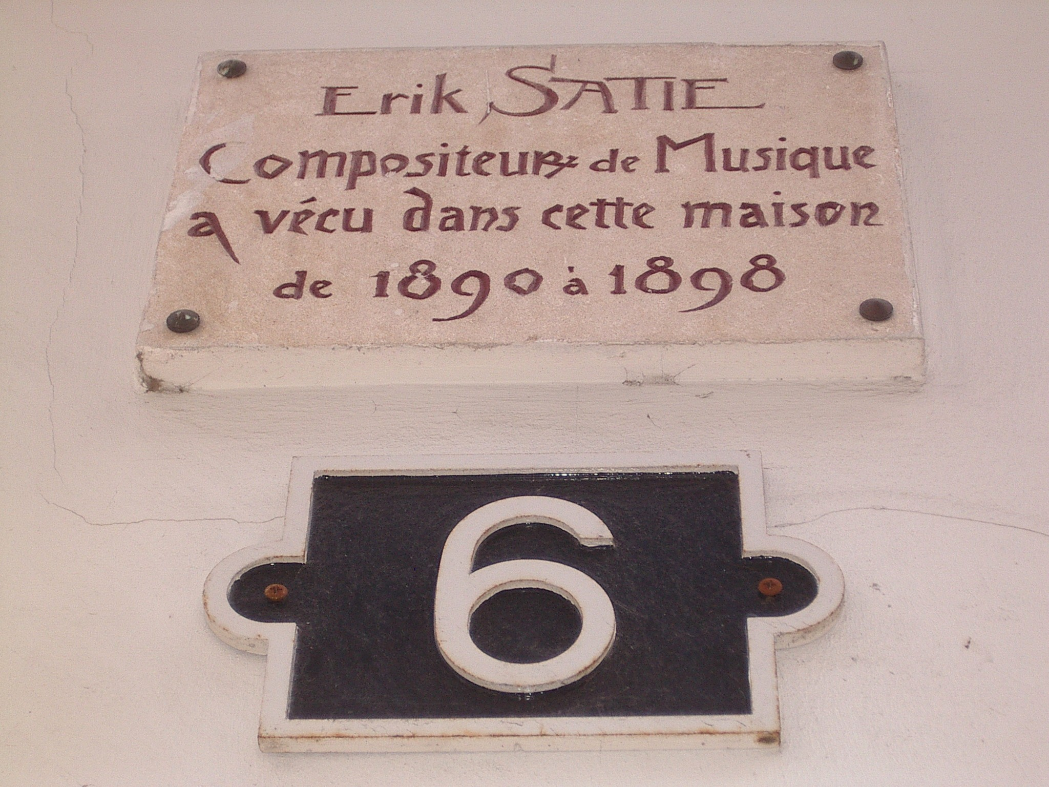 House at 6 Rue Cortot, Montmartre, Paris, home of Erik Satie from 1890 to 1898